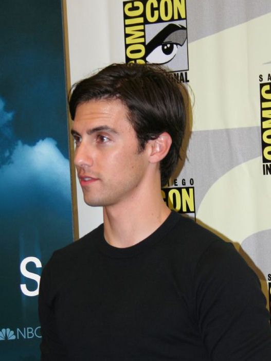 Milo Ventimiglia, American actor. Currently appearing on the TV series "Heroes"